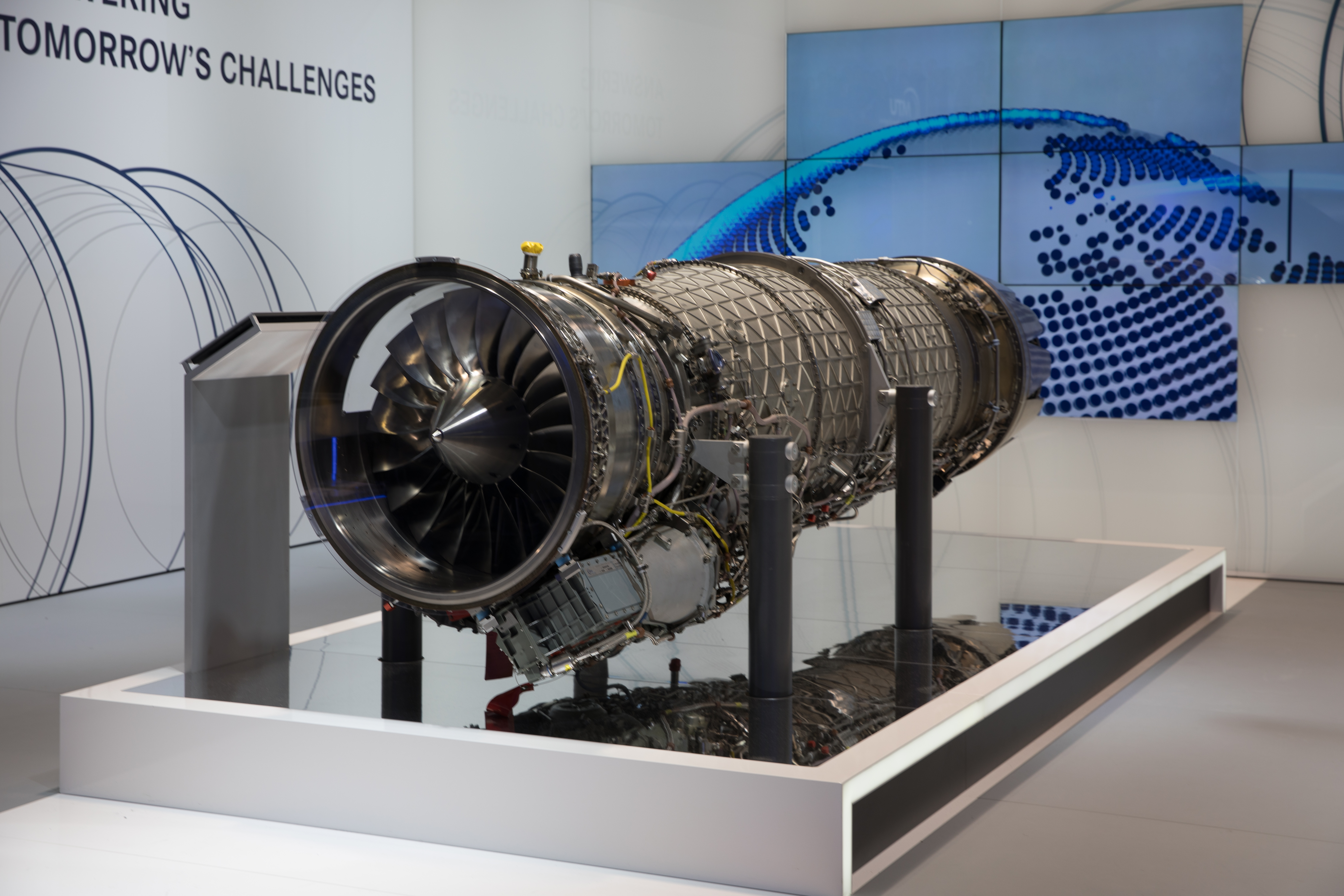 ILA 2018